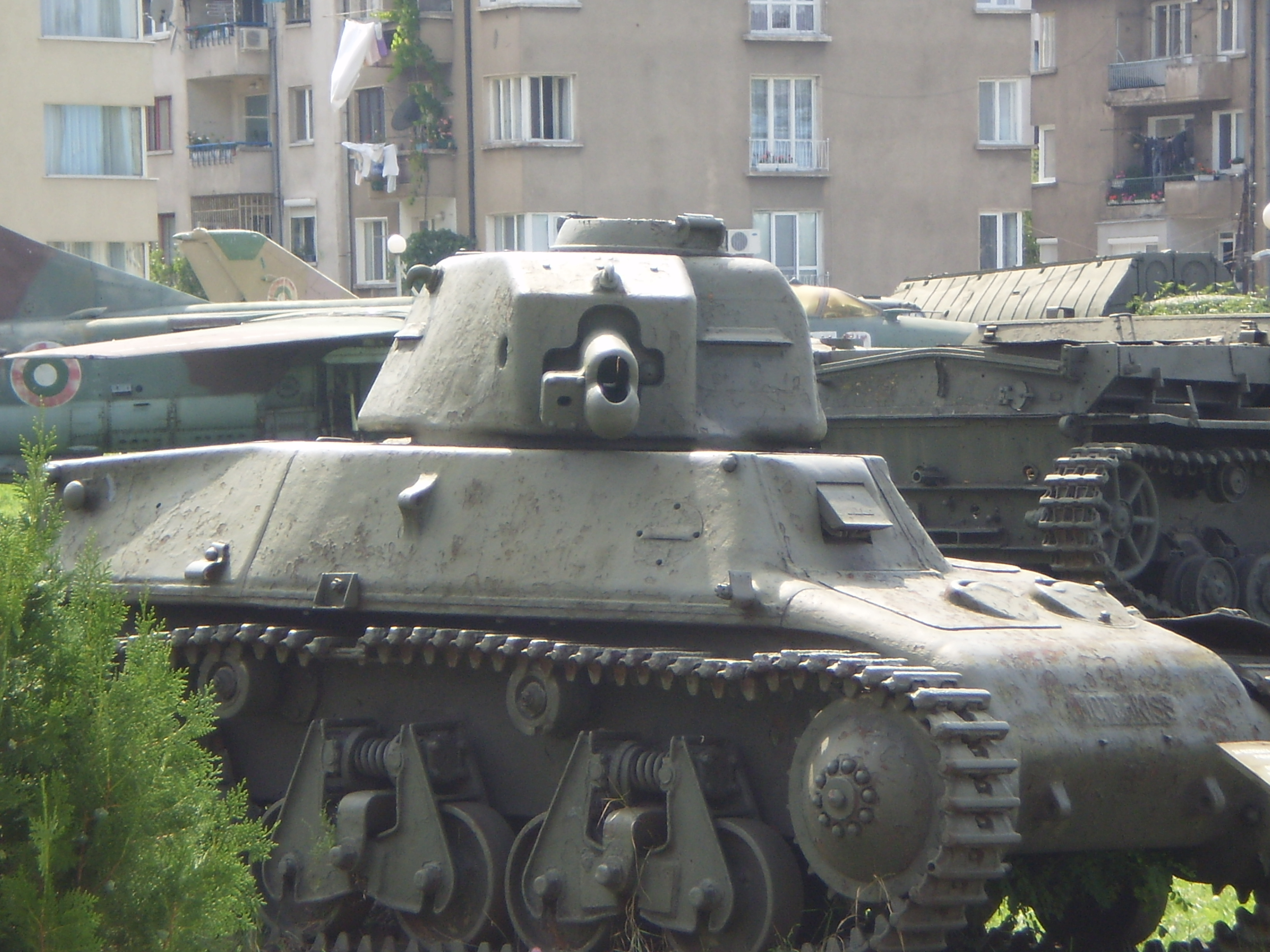 A view of a French H-39 light tank